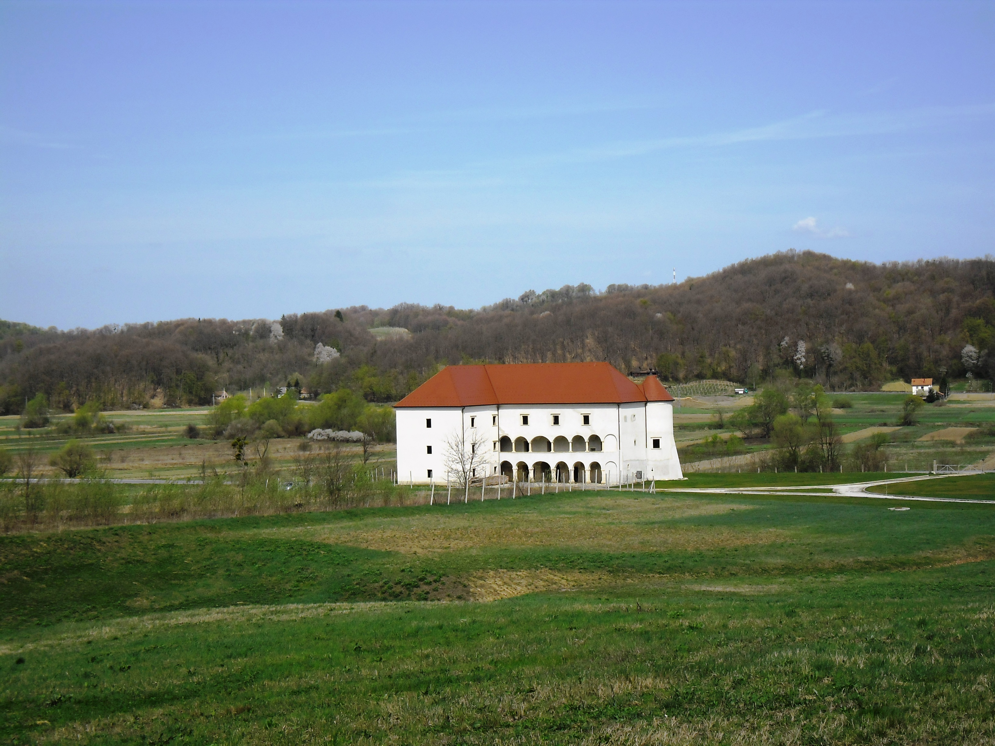 Castle of Bela, 17. century, in village of Bela, Varaždin County, Croatia